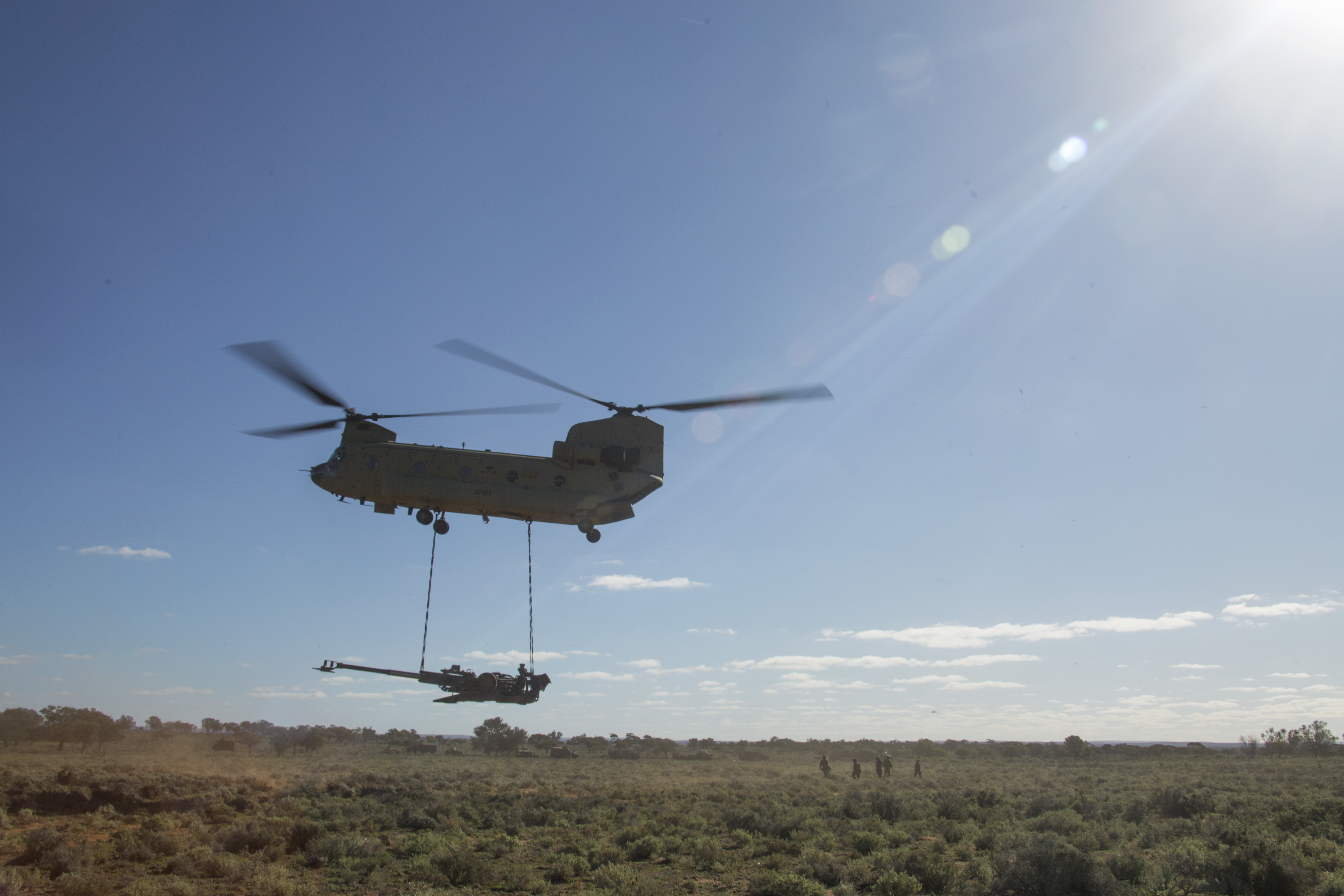 An Australian Army CH-47 Chinook lifts a M777A2 Howitzer during Exercise Predator Strike at Cultana Training Area, South Australia, Australia, June 12, 2016. Predator Strike is a yearly exercise conducted by U.S. Marines and the Australian Defence Force to enhance the trust, interoperability and friendship between the two allies. (U.S. Marine Corps photo by Cpl. Carlos Cruz Jr./Released)